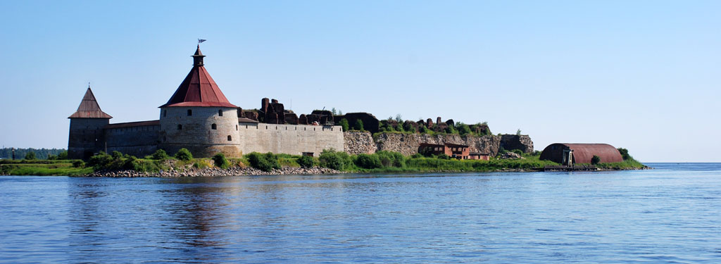 Russia. Leningrad region. Shlisselburg (Schlüsselburg). A fortress the Nutlet (Oreshek) on Nut island in a source of the river Neva from Ladoga lake